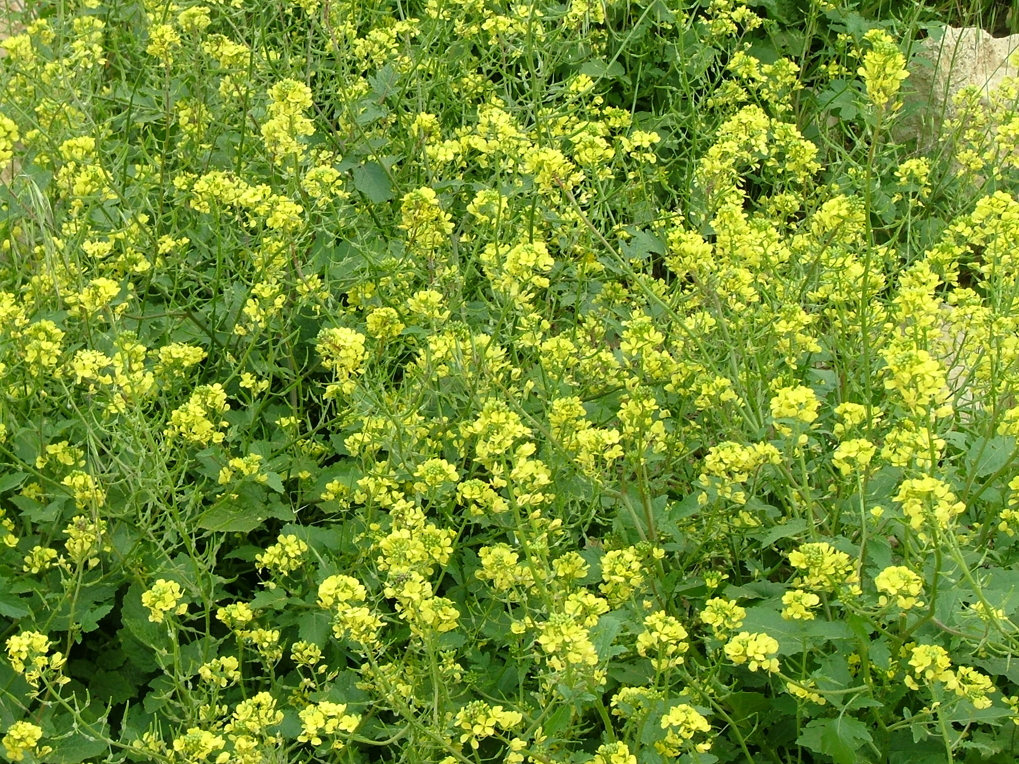 White Mustard (Sinapis alba) near Abu Ghosh.